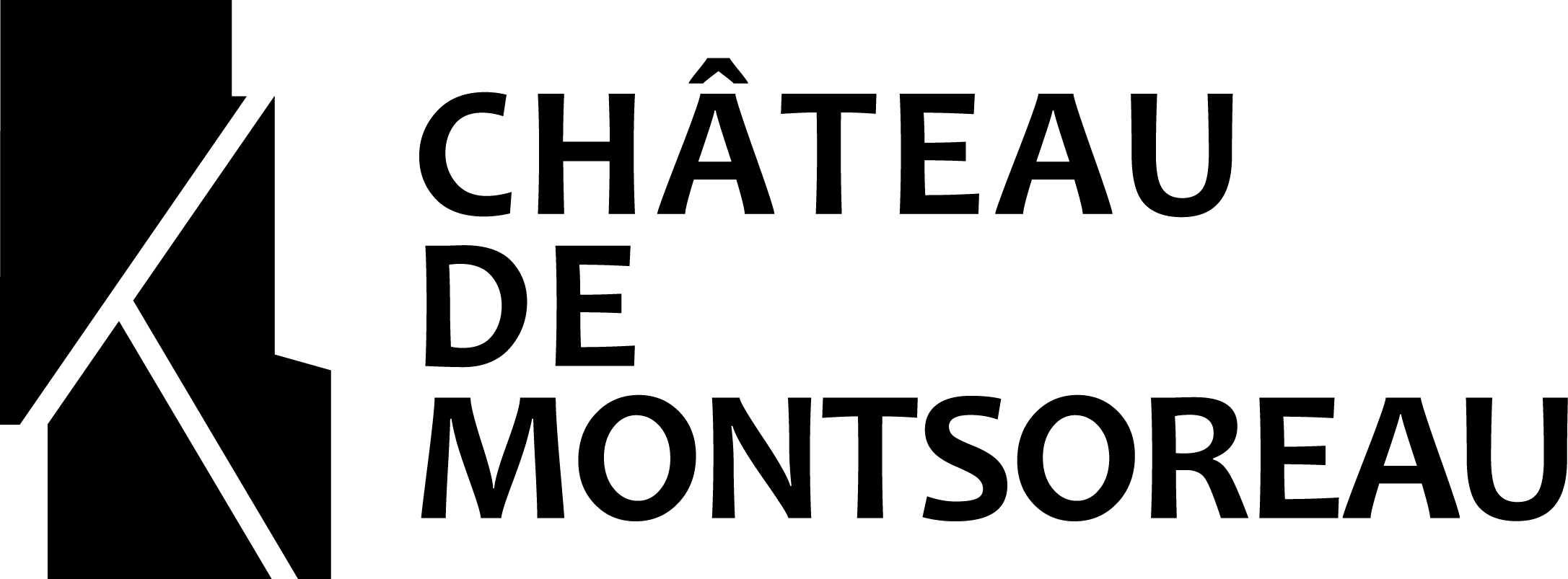 Logo Château de Montsoreau-Musée d'art contemporain